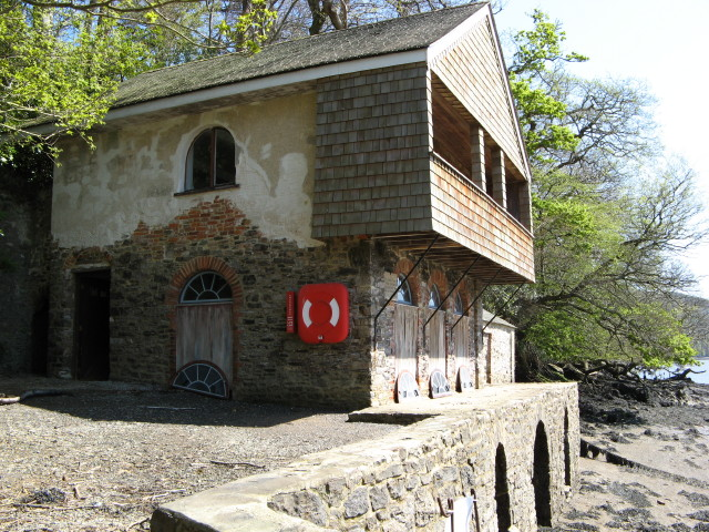 The Boathouse at Greenway A close-up view of the Boathouse at Greenway.